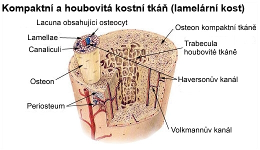 Compact bone & spongy bone (Cancellous bone)